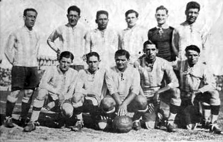 The Argentina national football team in the 1925 South American Championship. Standing: Médici, Bidoglio, Vaccaro, Fortunato, Tesoriere and Muttis. Bended: Tarasconi, Sánchez, Seoane, Garassini and Bianchi.